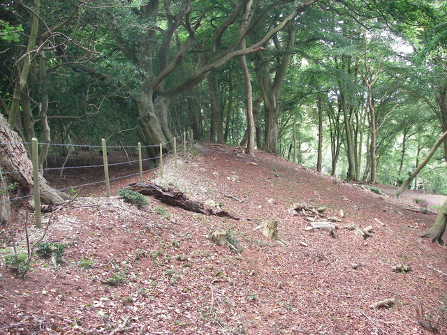 Frankenbury camp ramparts